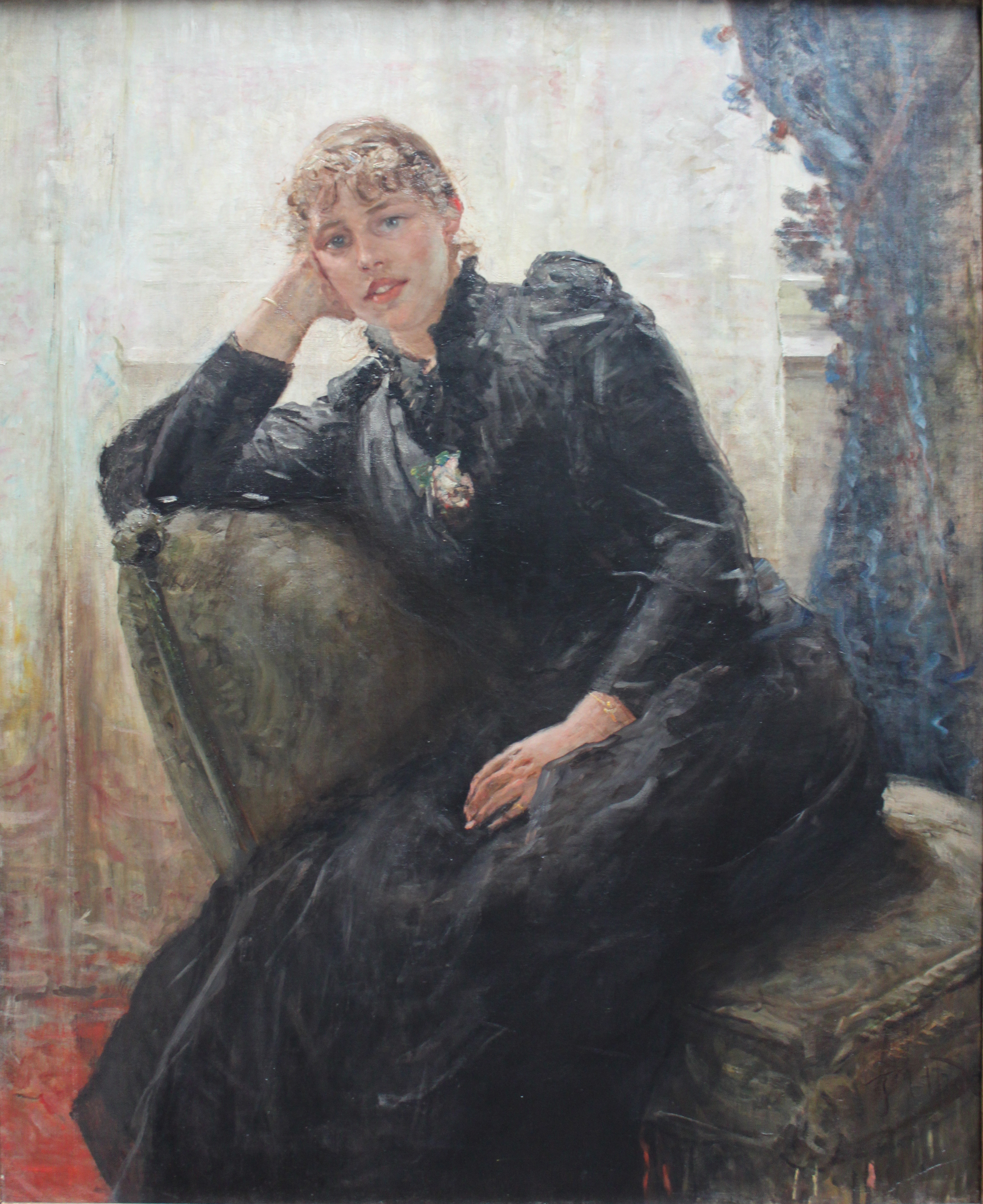 Portrait of a Lady (Portrait of Therese Karl)